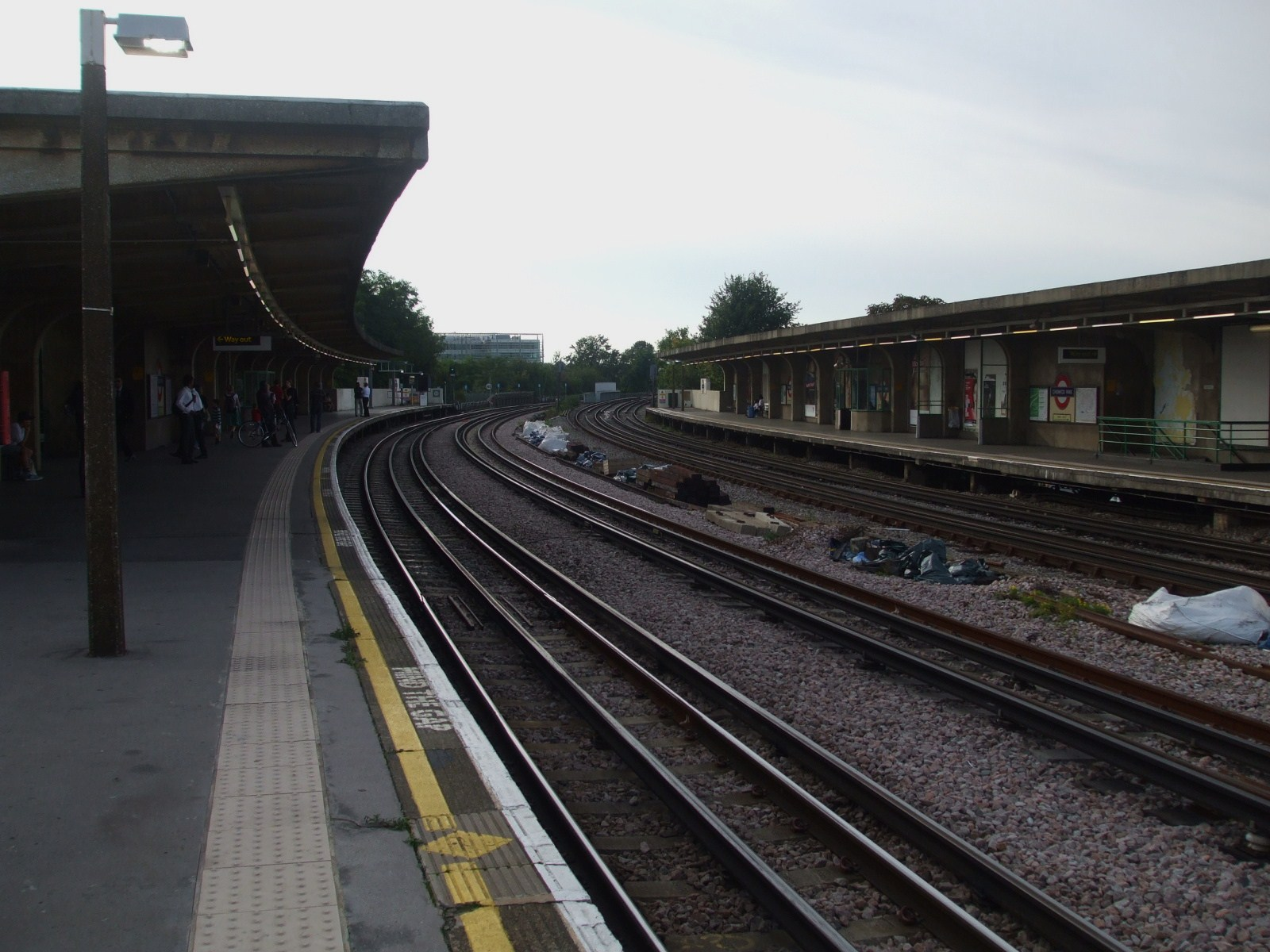 Chiswick Park tube station westbound platform looking west. Note no platforms for the Piccadilly line.